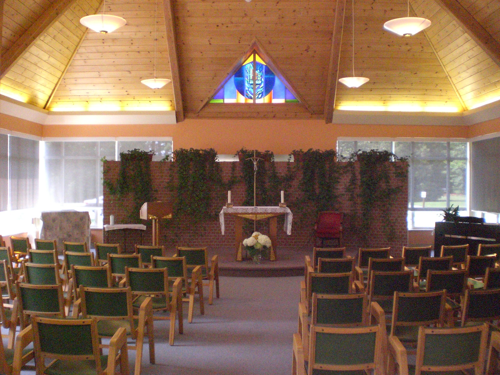 Photo of the chapel in the Manresa Jesuit Spirituality Renewal Centre, Pickering